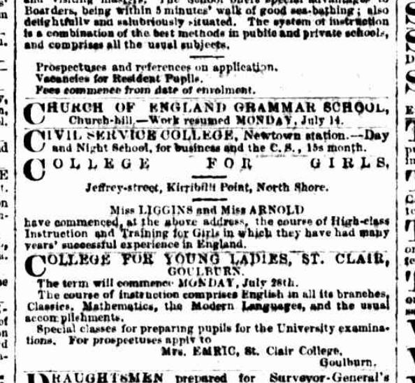 First known reference to Jeffrey Street in an Advertisement circa 1884